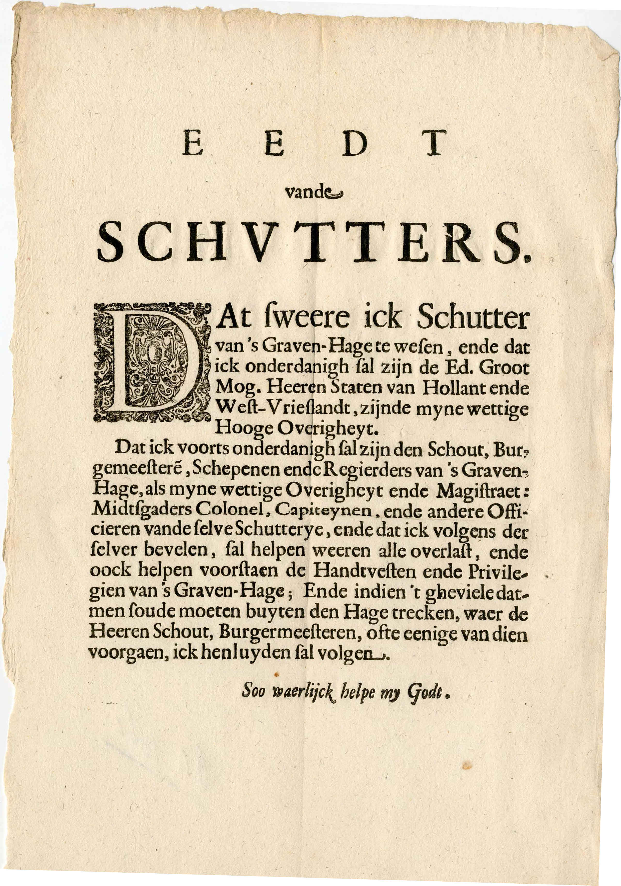 Oath of the civic guardsmen of The Hague.